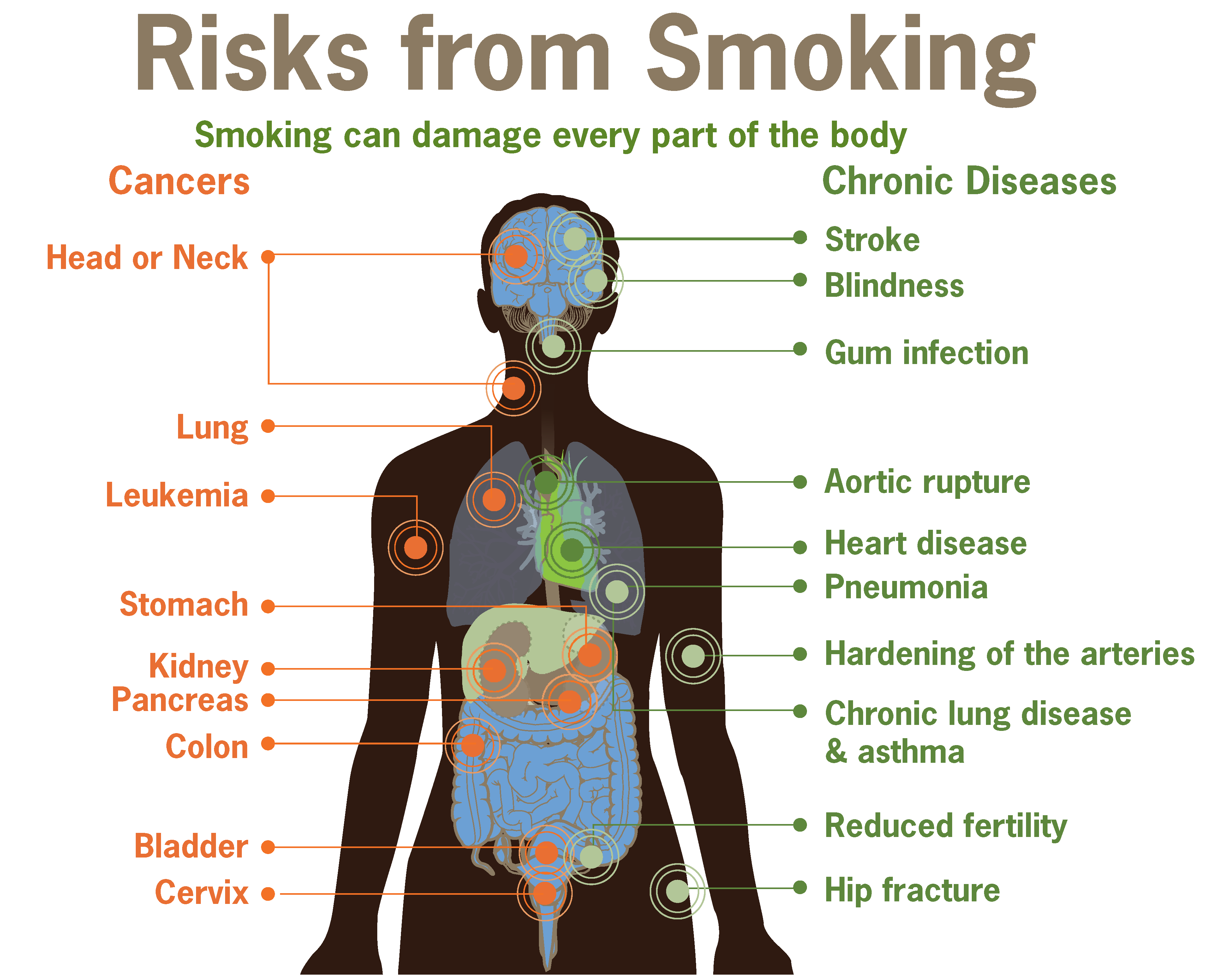 Risks form smoking-smoking can damage every part of the body